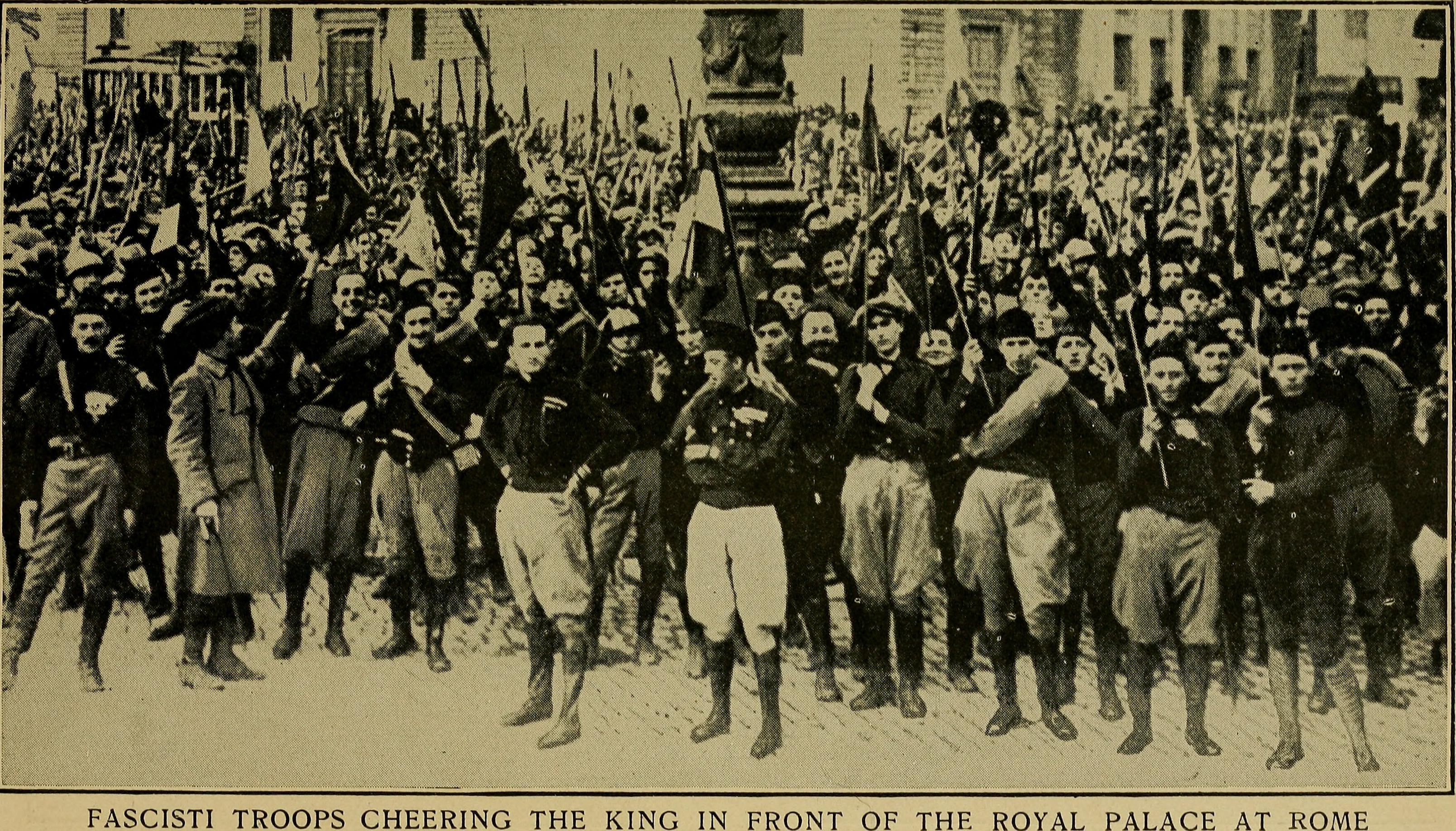 Title: The "red" dragon and the black shirts; how Italy found her soul; the true story of the fascisti movement Year: 1922 (1920s) Authors: Phillips, Percival, Sir, 1877-1937 Subjects: Partito nazionale fascista (Italy) Communism Publisher: London, Carmelite house Text Appearing Before Image: HI Text Appearing After Image: IV